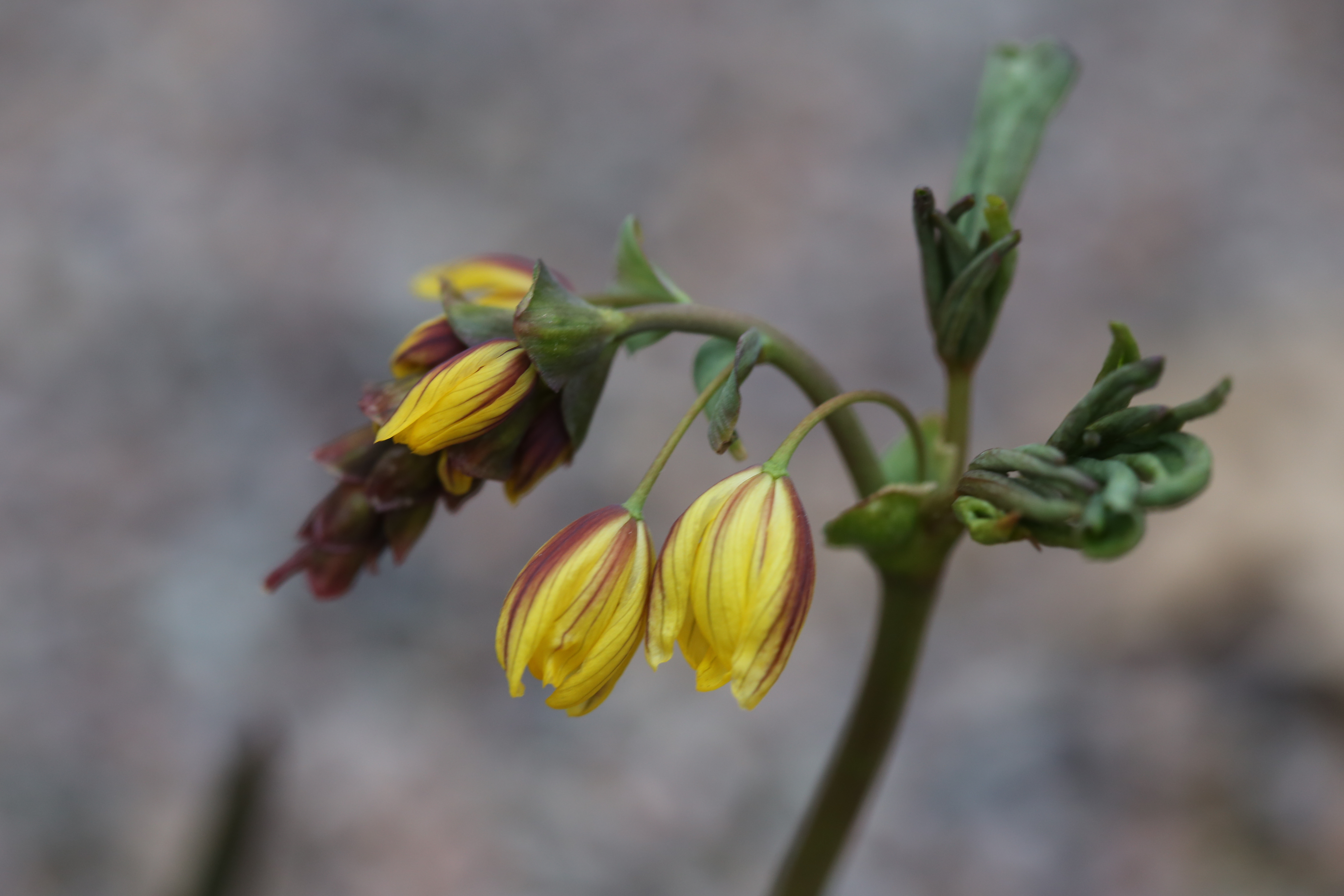 Gymnospermium alberti at Gothenburg botanical garden in 2015. Plant id: 1987-0585 p W -- Mikulastik